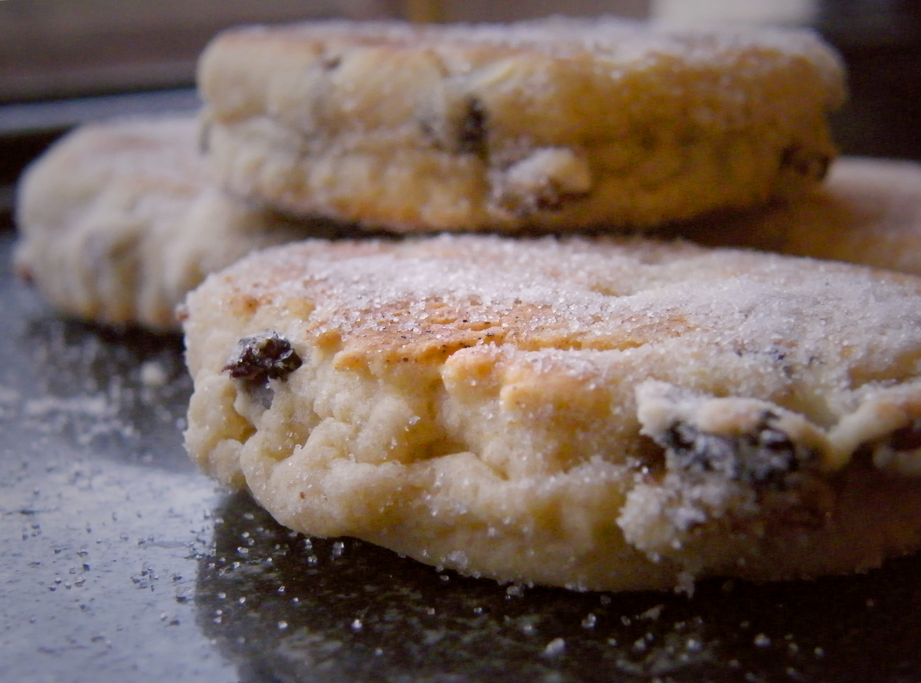 Almost St David's day so here are some welsh cakes....